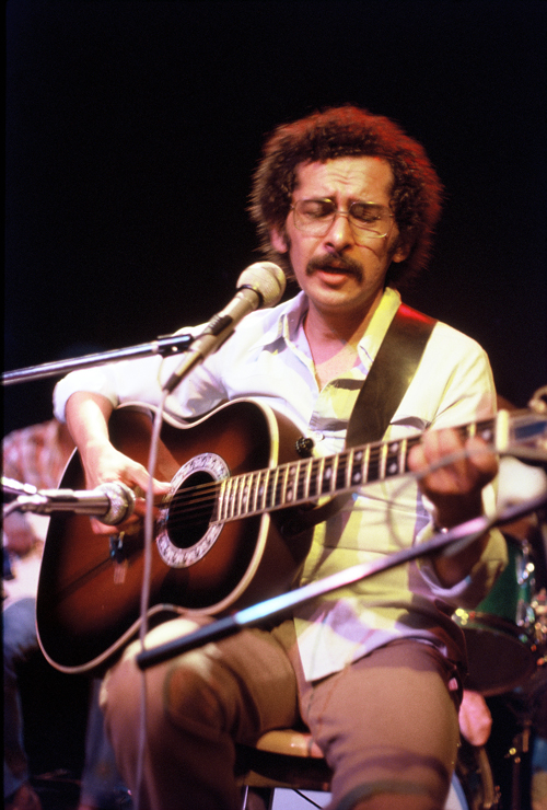 Clésio in Chapada do Corisco's show